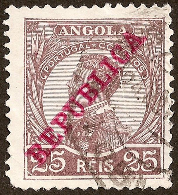 1912 stamp of Angola figuring king Manuel II of Portugal and overprinted "REPUBLICA". In Portugal, this series was issued without overprint in 1910.